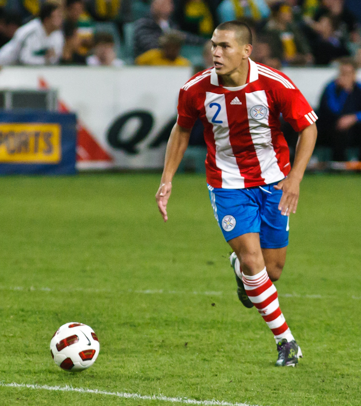 Dario Veron playing for the Paraguay national football team in a friendly match against Australia at the Sydney Football Stadium.